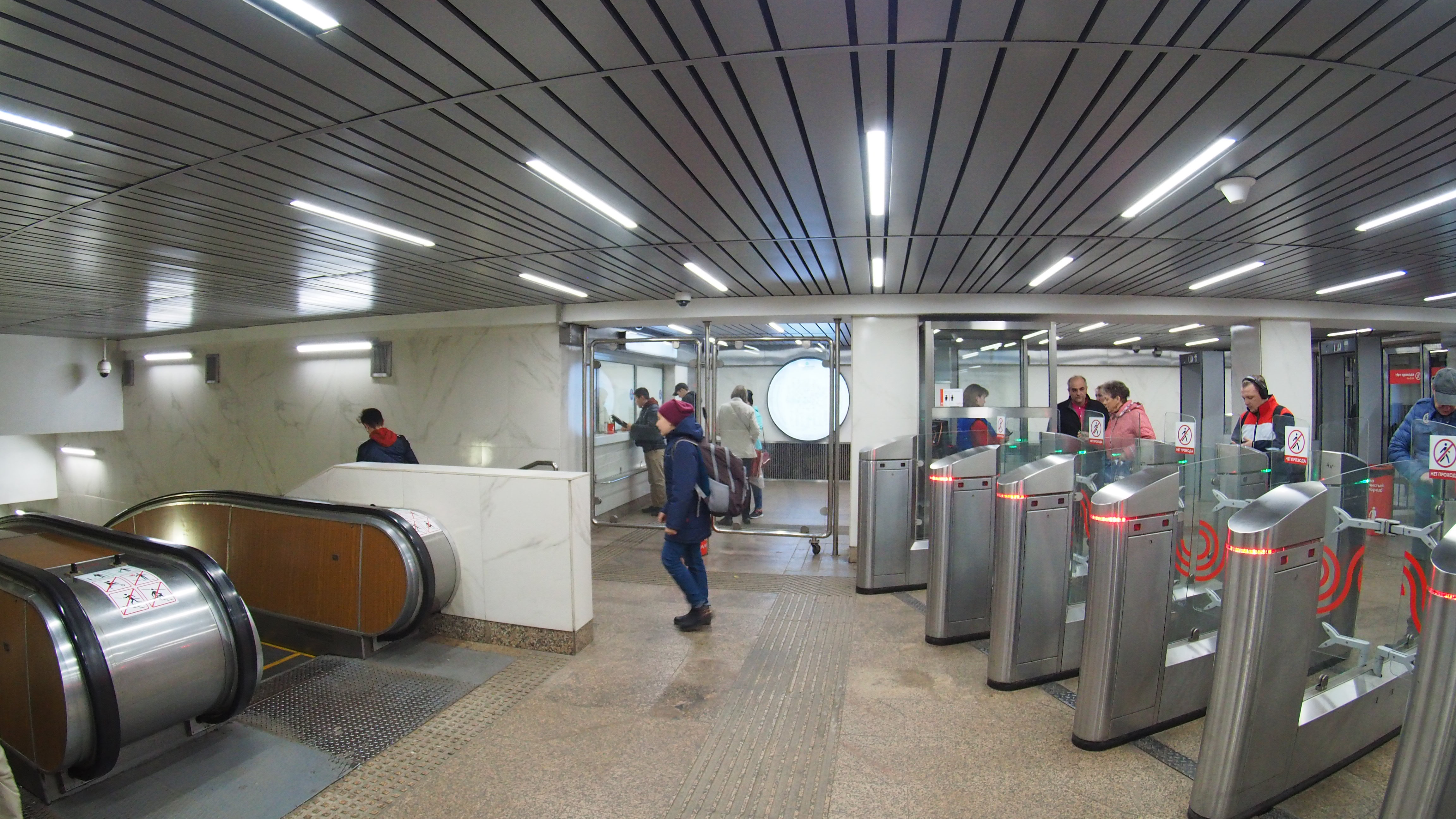 Last day before close